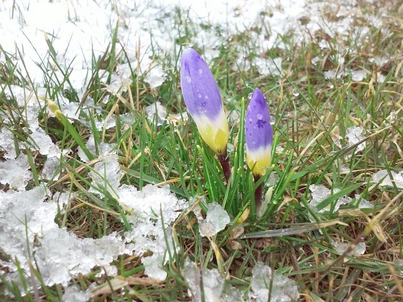 Crocus in the snow